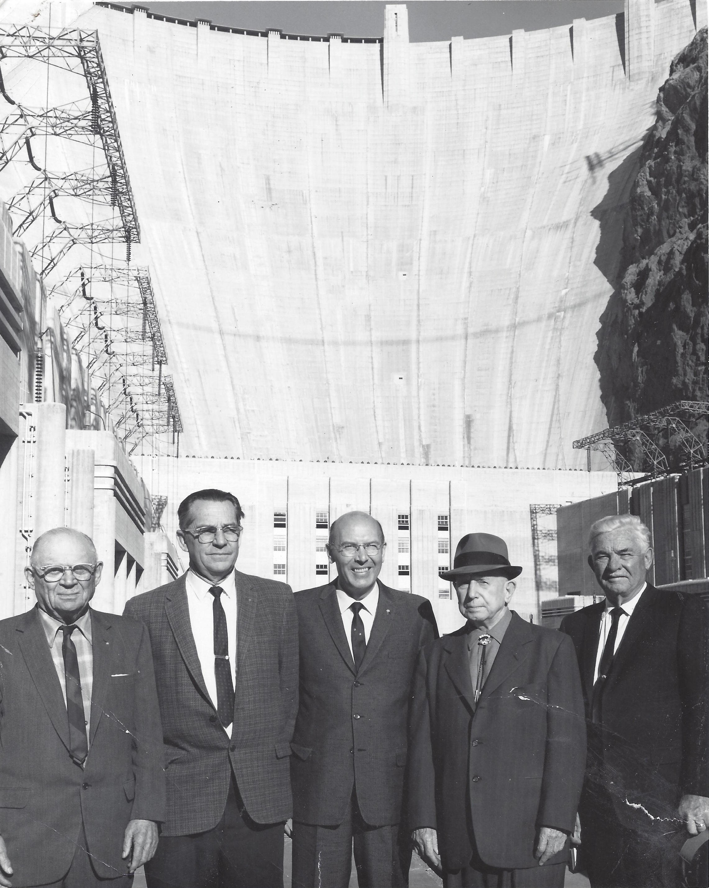 Photograph of Bureau of Reclamation officials at Hoover Dam, c. 1962. Photo P 45-301-11513. Louis R. Douglass at far left.